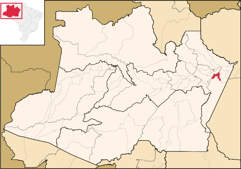 Localization of Caapiranga in Amazonas state, Brazil.